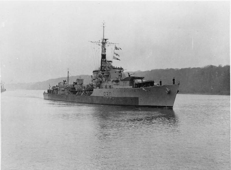 Photograph of British C class destroyer HMS Carron.